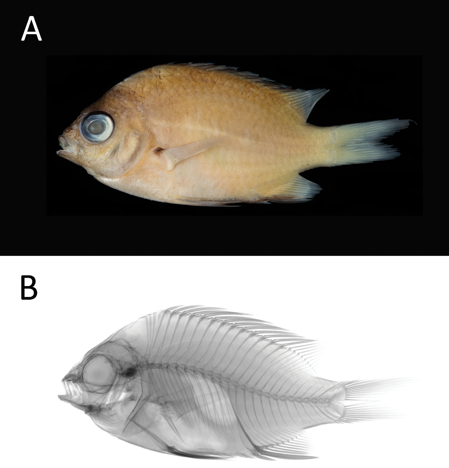 Fig 2. Chromis hangganan Arango, Pinheiro, Rocha, Greene, Pyle, Copus, Shepherd & Rocha, 2019 sp. n. PNM 15358 a holotype preserved in alcohol, 57.75 mm SL b radiograph (photographs JD Fong).